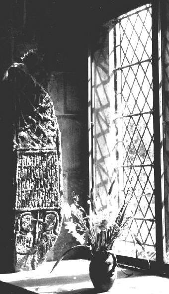 Urswick St. Mary Inside the church part of an Anglo-Saxon Cross shaft with a runic inscription